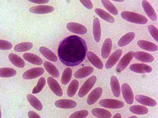 Digitally modified image of a blood smear demonstrating the hallmarks of hereditary elliptocytosis.